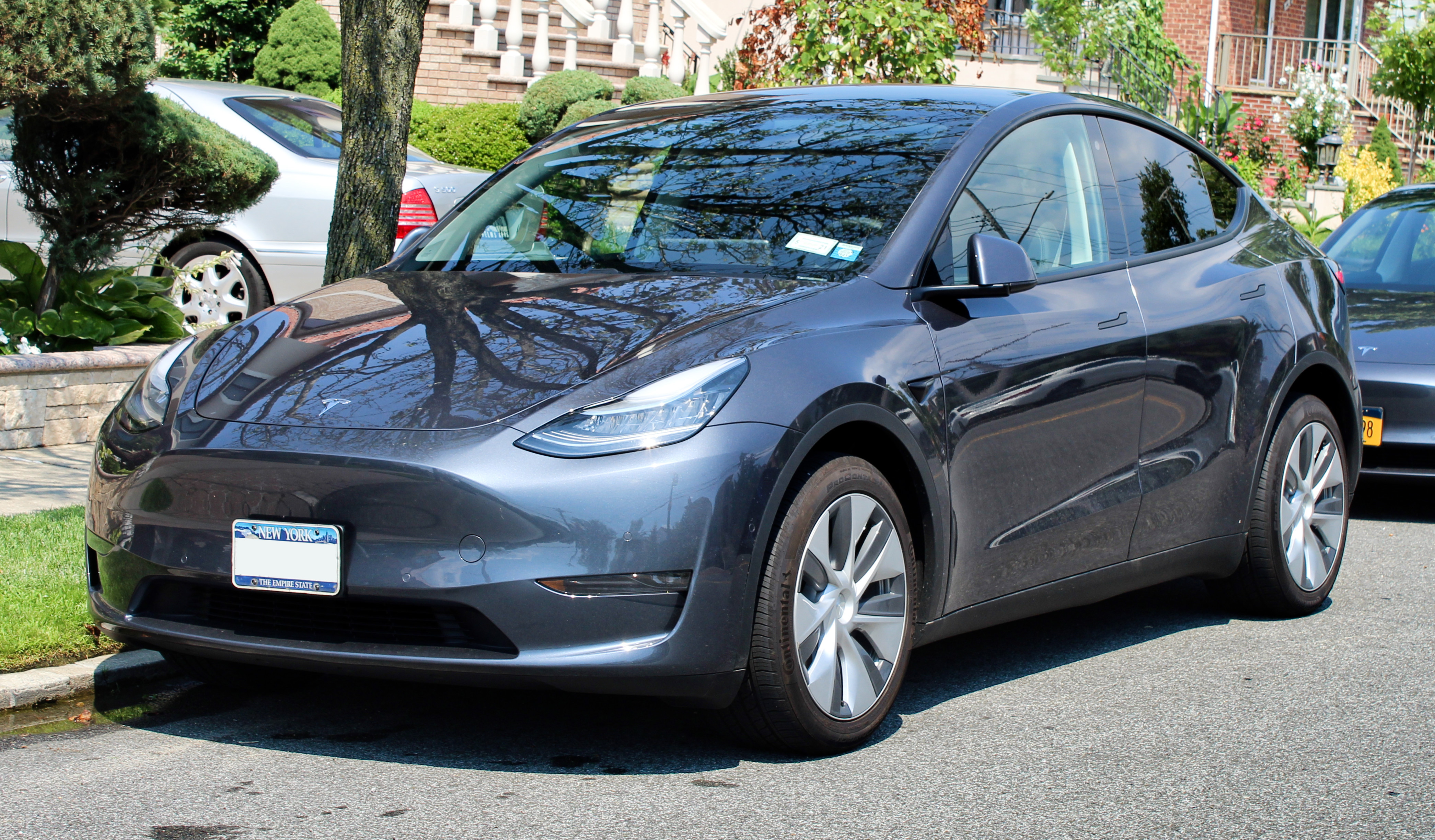 A 2020 Tesla Model Y photographed in Whitestone, Queens, New York, USA